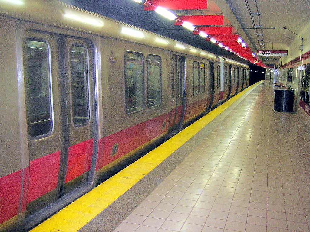 Inbound train at Kendall/MIT station in November 2004